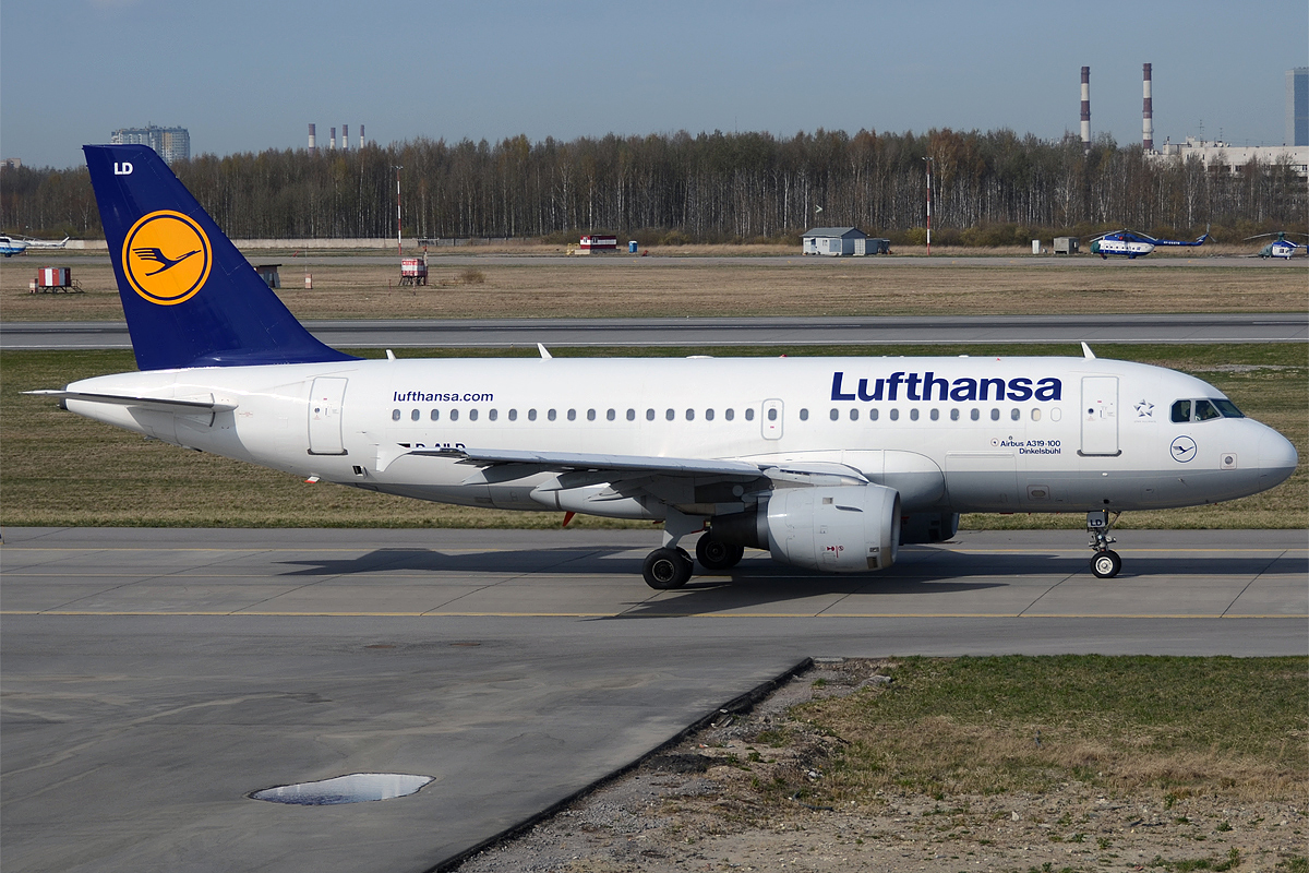 Lufthansa, D-AILD, Airbus A319-114